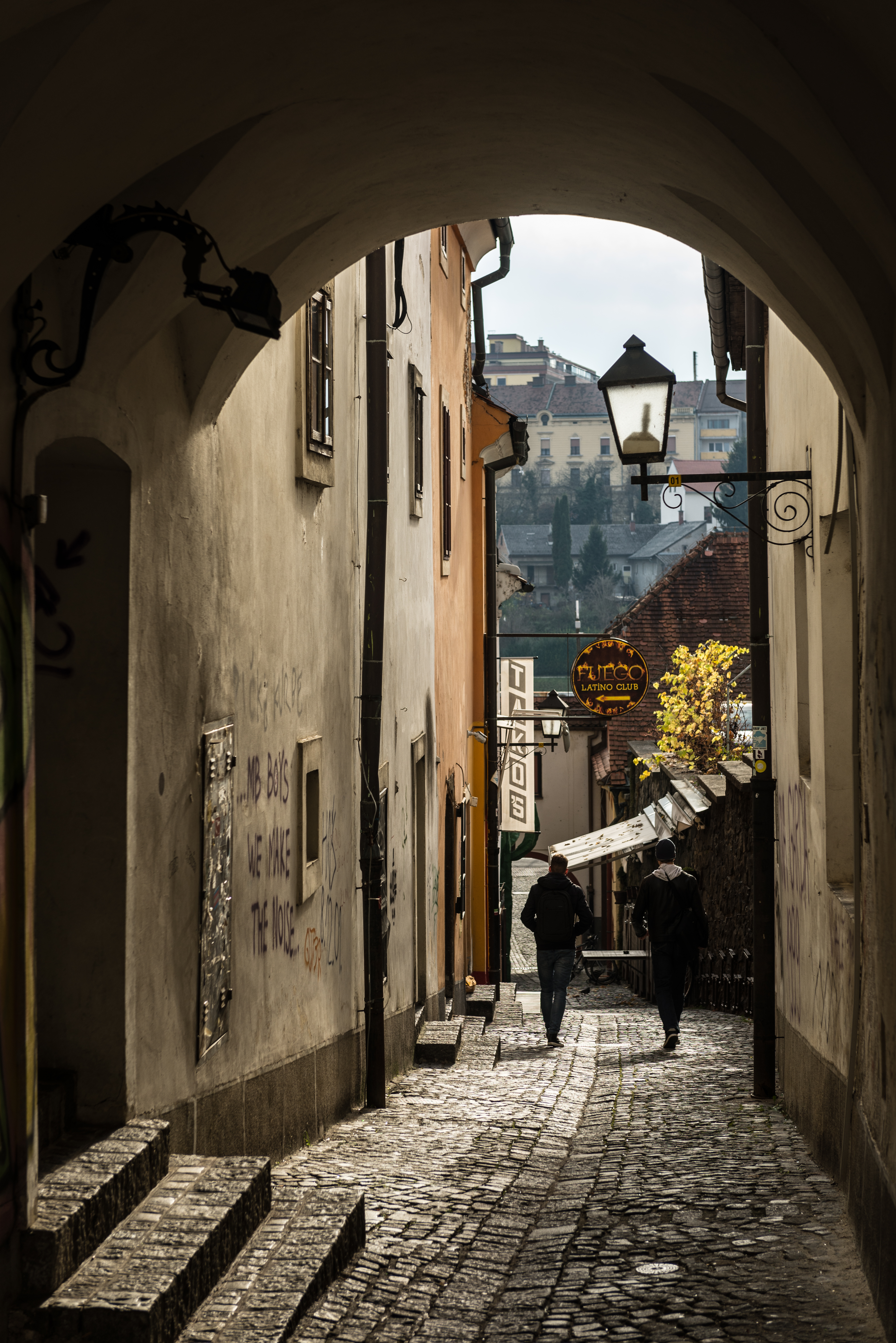 Maribor, Slovenia, center of town, alley to river Drau